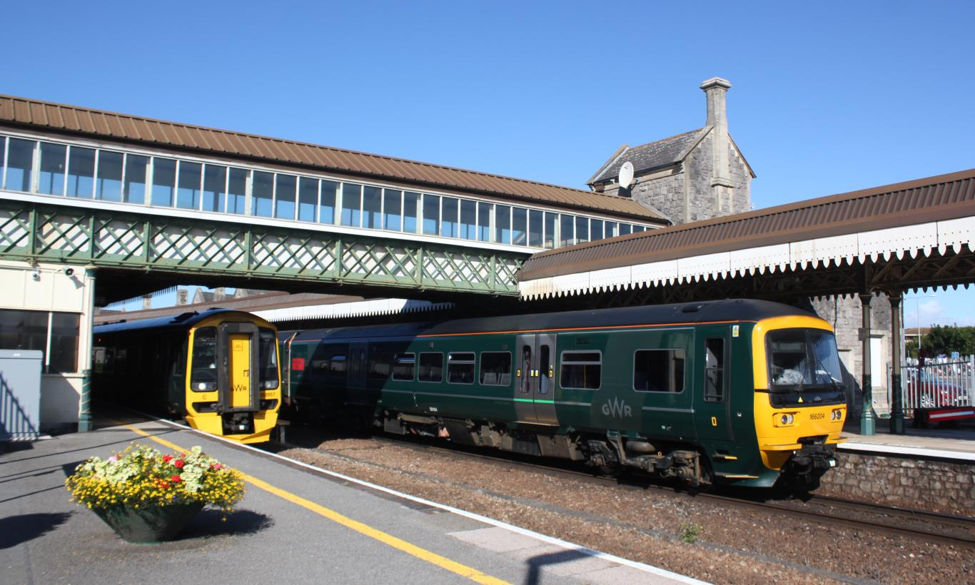 Two Great Western Railway services at Weston-Super-Mare. 158957 (left) is on the 08:36 Taunton to Bristol Parkway; 166204 (right) is arriving with the 08:12 Bristol Parkway to Taunton.